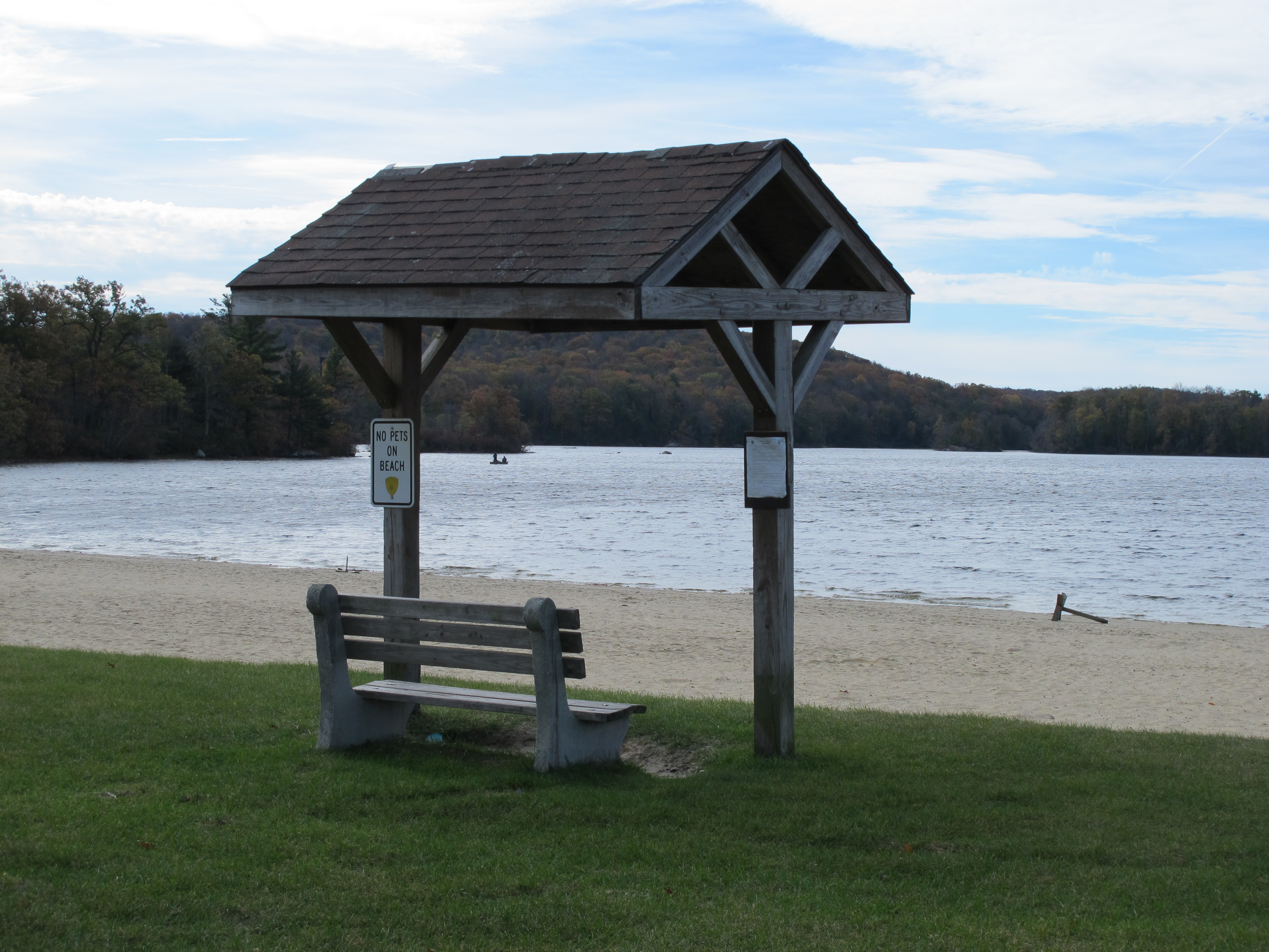 At the northside of Wawayanda Lake, close to the parking lot